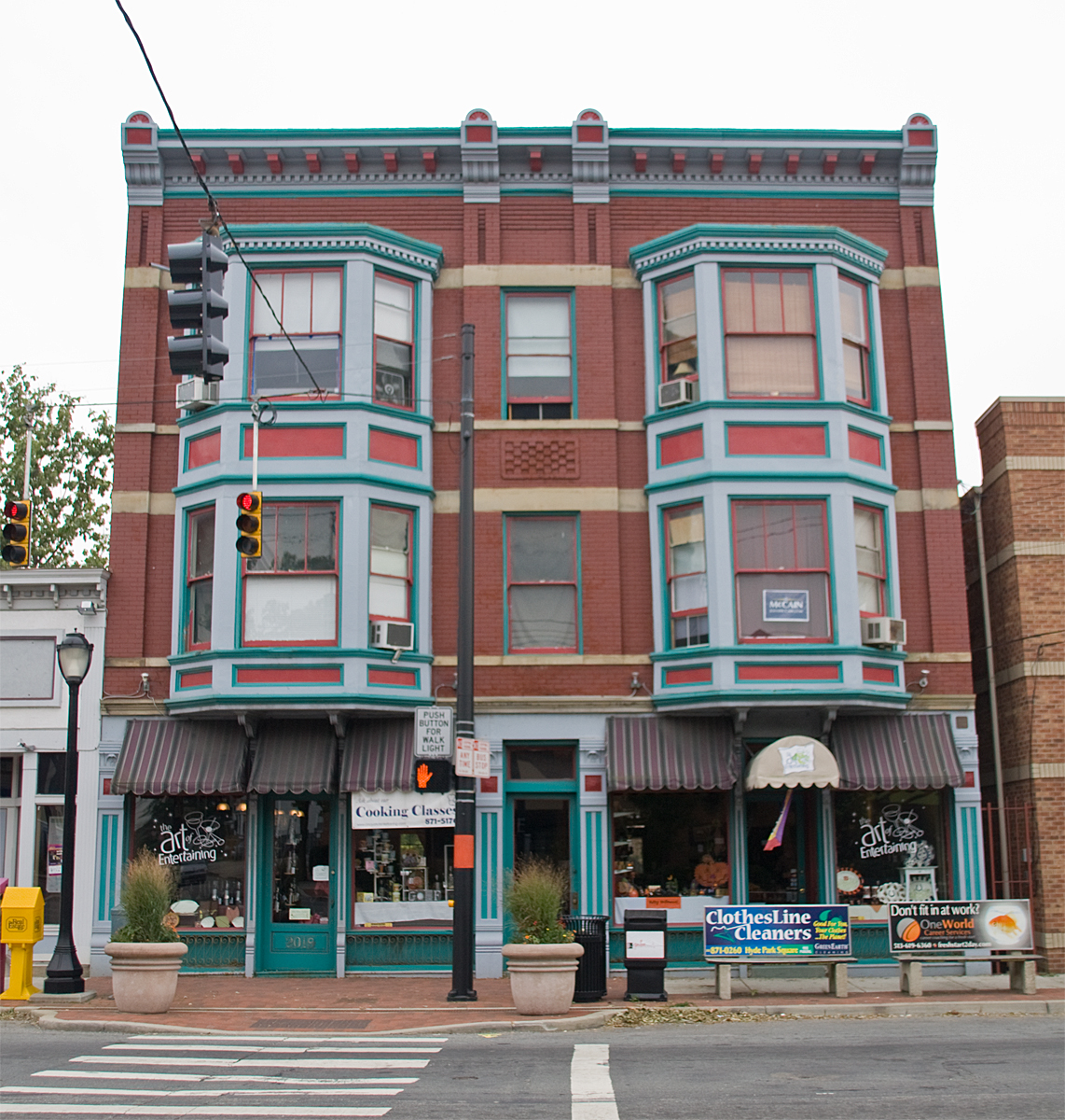 Bauer Apartments in Cincinnati, OH. Photo by Greg Hume